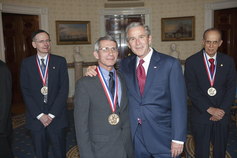 President George W. Bush poses with 2005 National Medal of Science recipient Dr. Anthony S. Fauci of The National Institute of Allergy and Infectious Diseases, Friday, July 27, 2007, in the Blue Room, after award ceremonies in the East Room of the White House. Also pictured are Dr. Tobin J. Marks (left) and Dr. Bradley Efron. Photo by Eric Draper, Courtesy of the George W. Bush Presidential Library and Museum